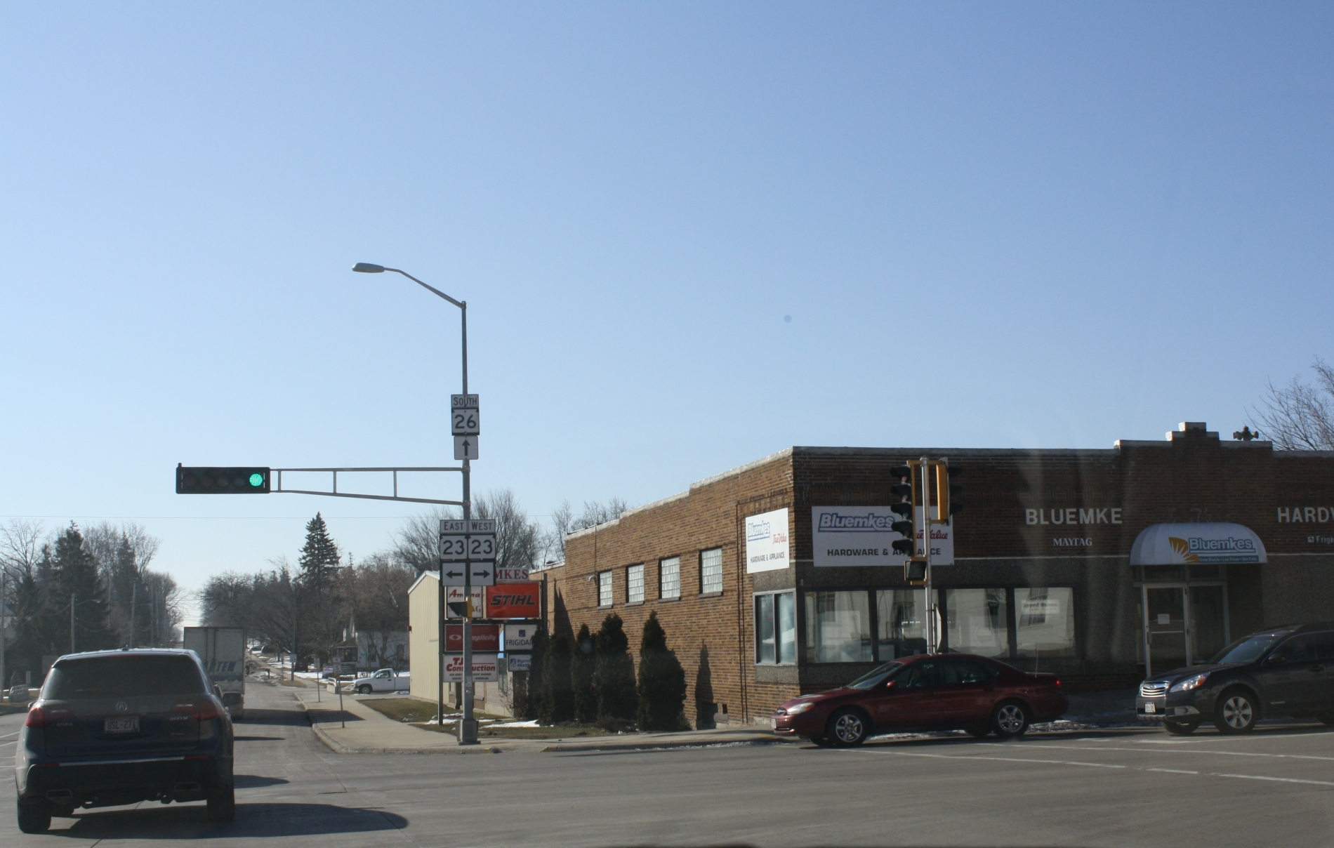 Looking south in downtown Rosendale, Wisconsin. Wisconsin Highway is left/right and Wisconsin Highway 26 is straight ahead.